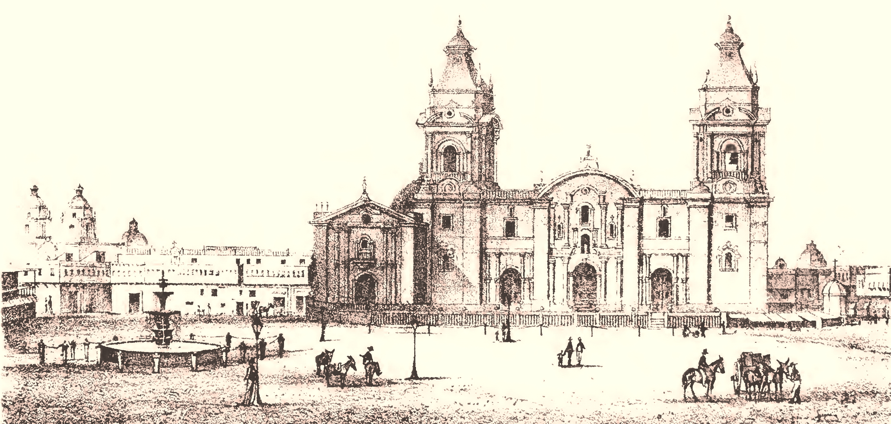 Cathedral of Lima, Peru.